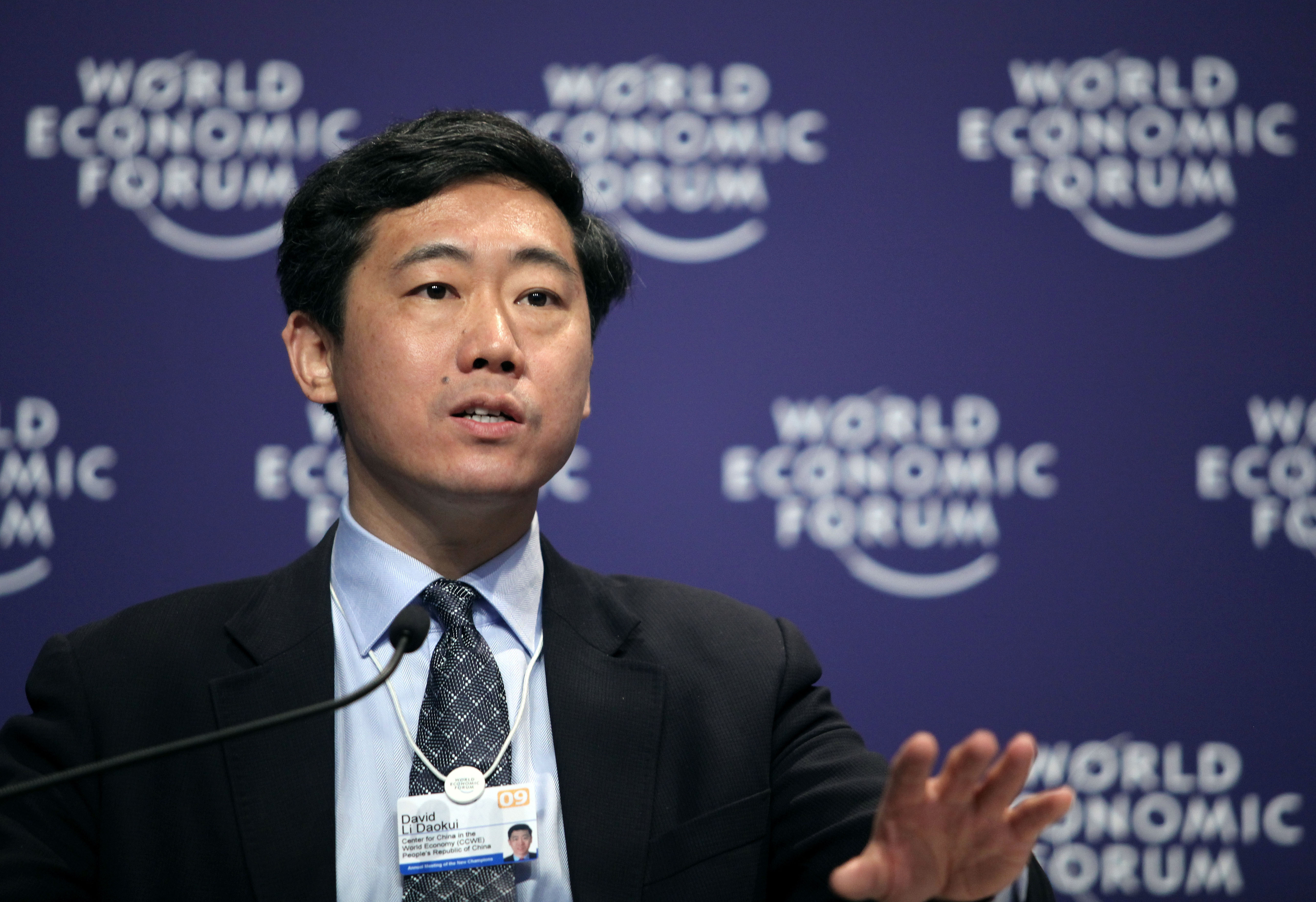 DALIAN/CHINA, 11SEPT09 - David Li Daokui, Director and Mansfield Freeman Professor of Economics, Center for China in the World Economy (CCWE), Tsinghua University, speaks during the Global Dimensions of China's Domestic Growth session at The World Economic Forum Annual Meeting of the New Champions in Dalian, China 10-12 September 2009. Copyright World Economic Forum ( Behring)